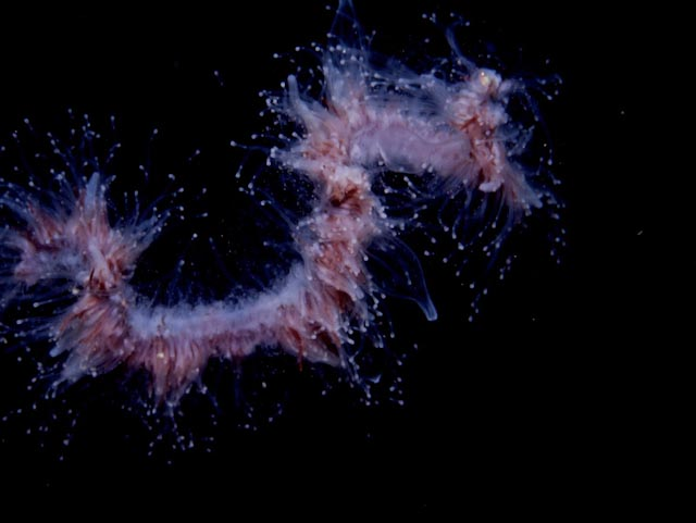 A photograph of a string jellyfish, Apolemia uvaria, taken in 10m of water in False Bay Cape Town using a Nikonos V camera